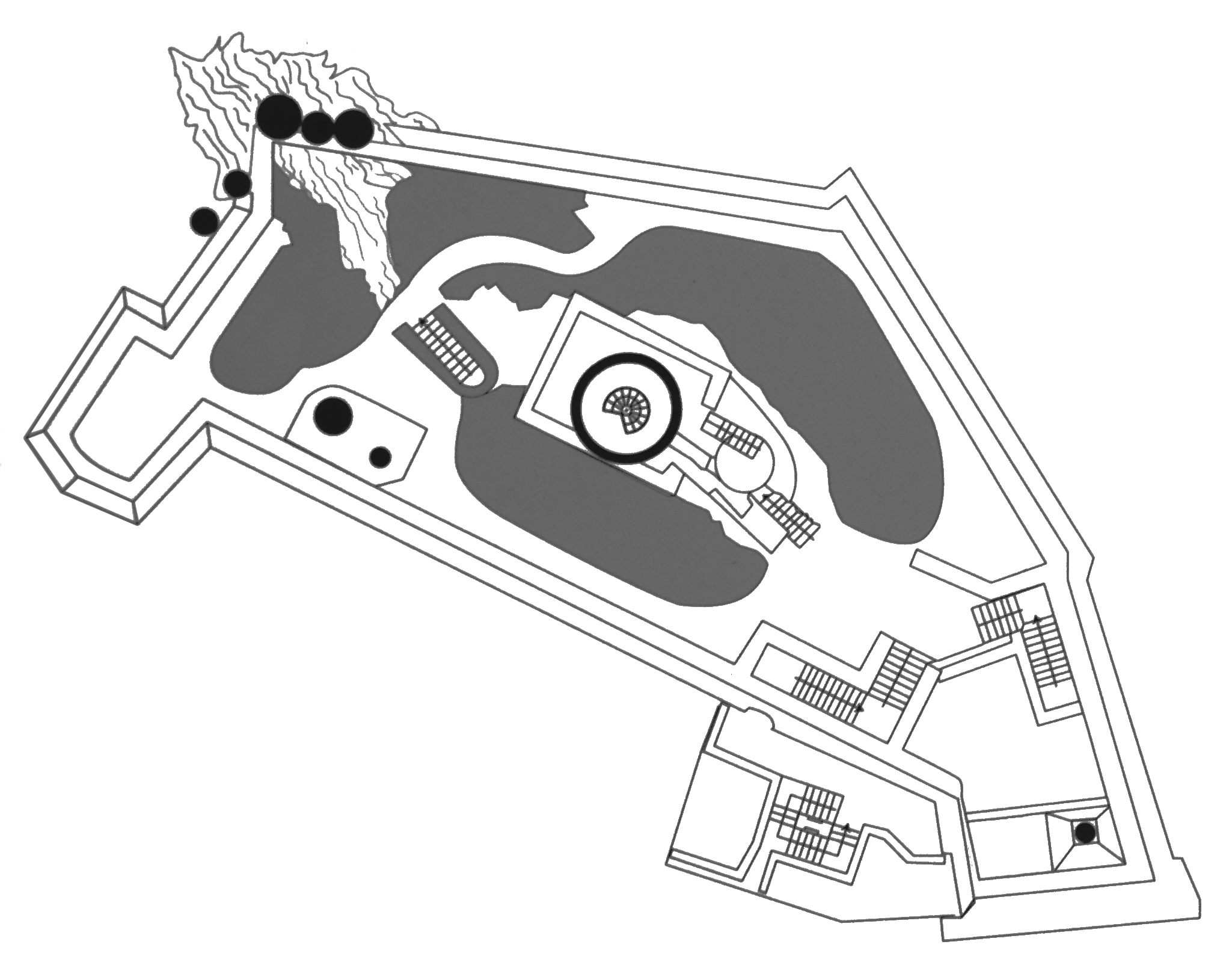 Drawing of the Doria Castle at Vernazza. Photo of an explanatory panel on site.